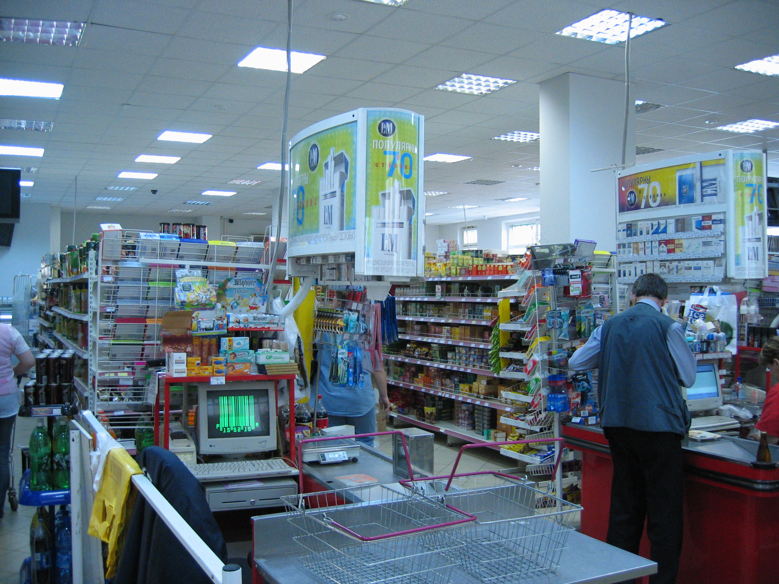 Universam MAGNIT, Moscow Novorossiskaya ul.